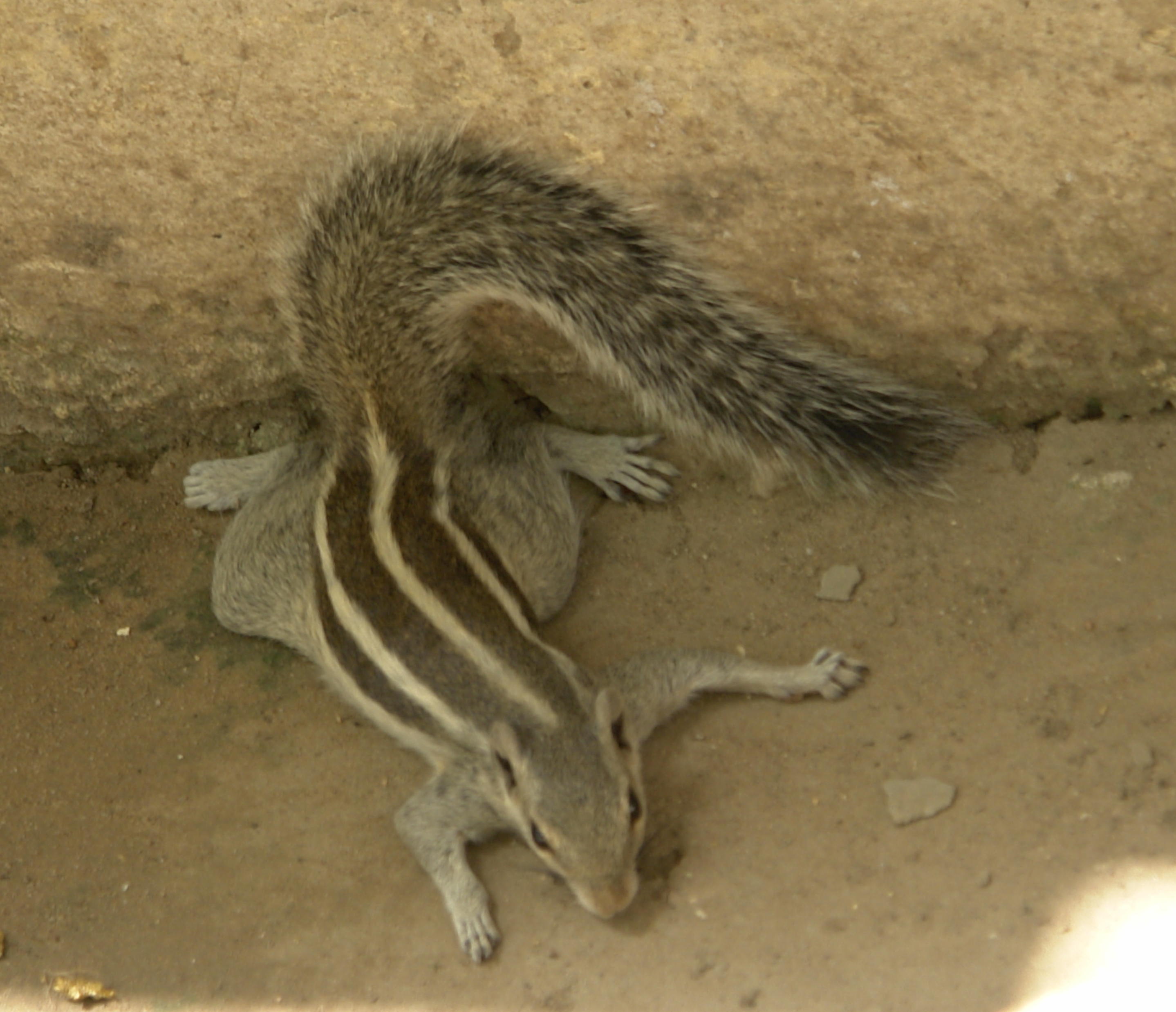 Funambulus pennantii (Five-striped Palm Squirrel) resting in the shade during the summer, Jaura, M.P., India.